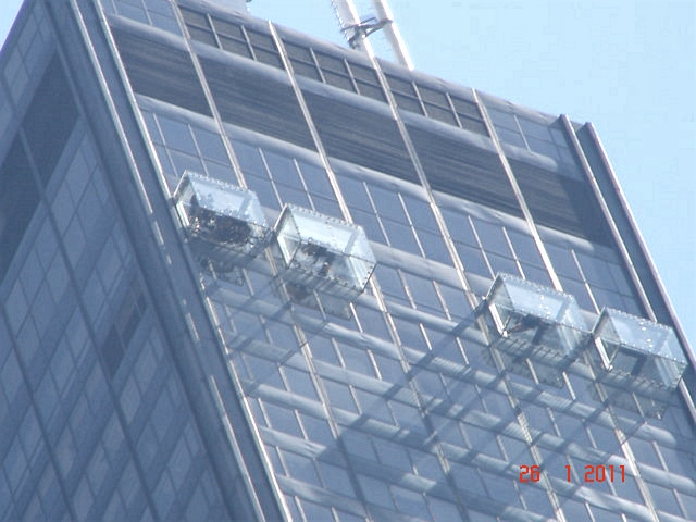 The 4 glasses boxes of the Skydeck at the Willis Tower in Chicago, Illinois